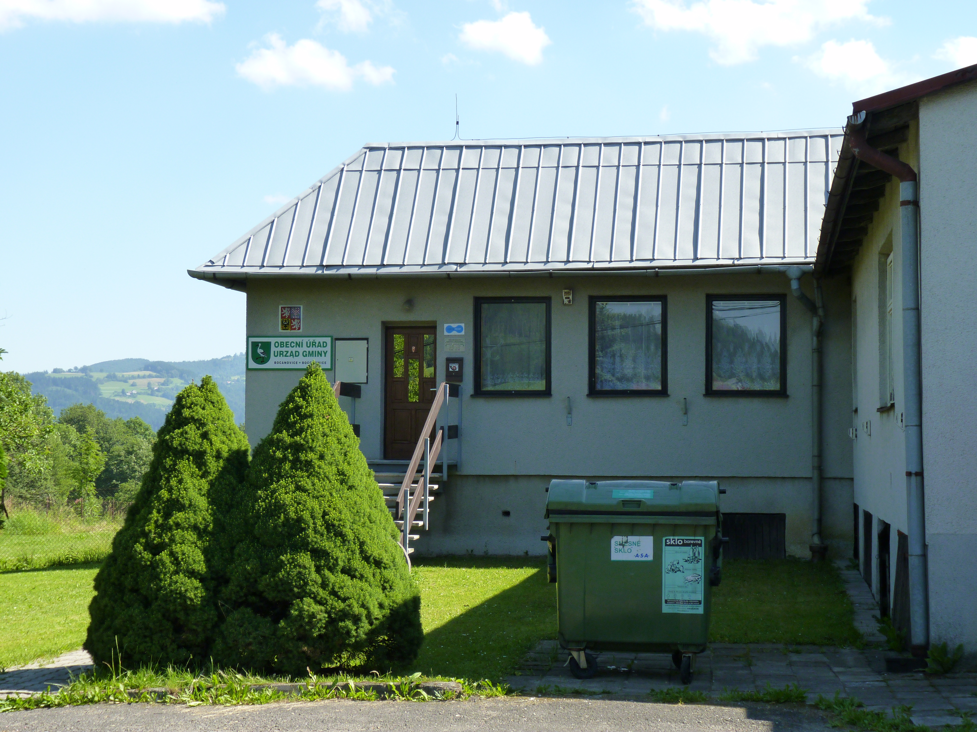 Bocanovice - municipal office, Moravian-Silesian Region, Czech Republic